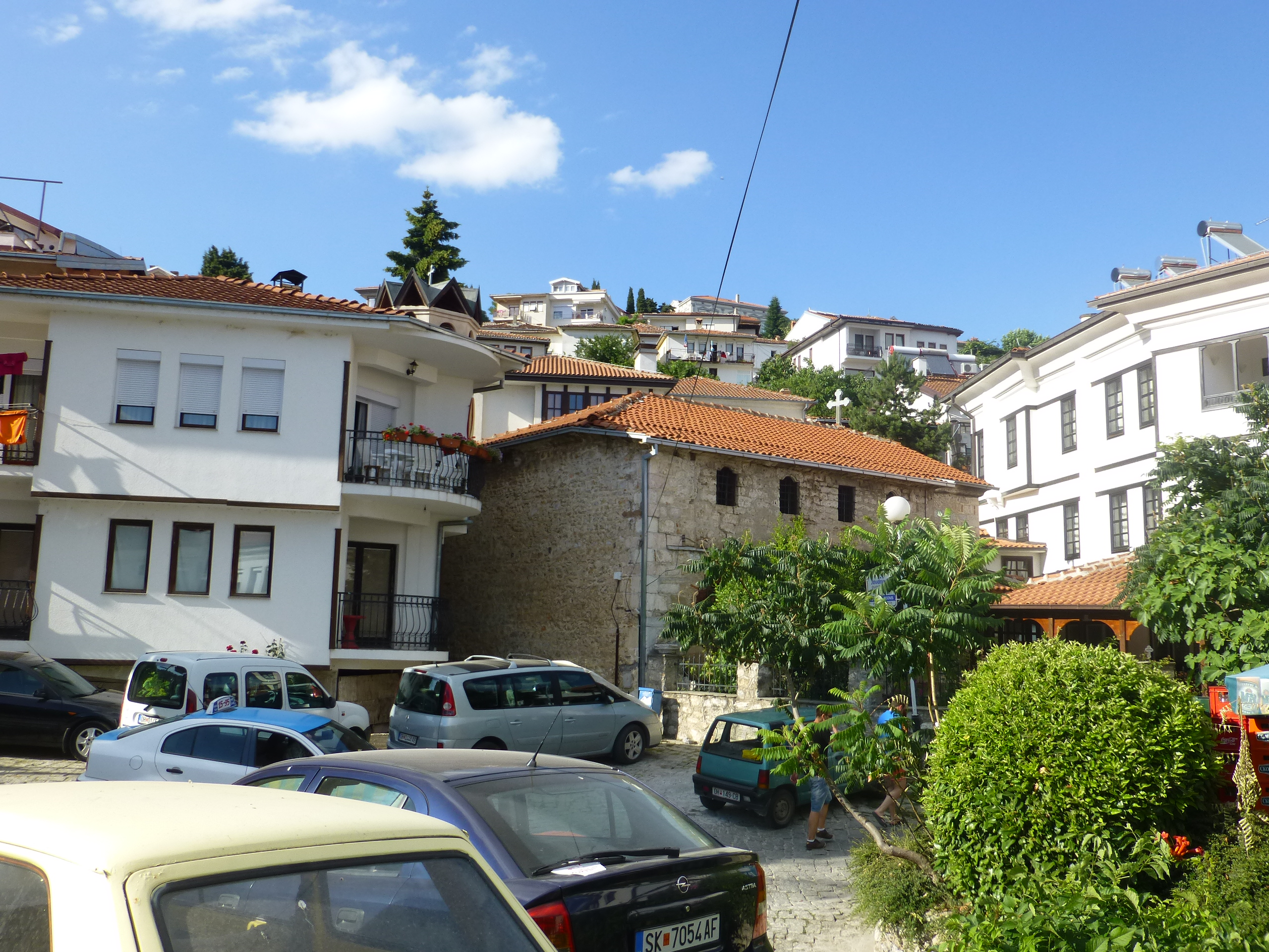 In Ohrid's old city